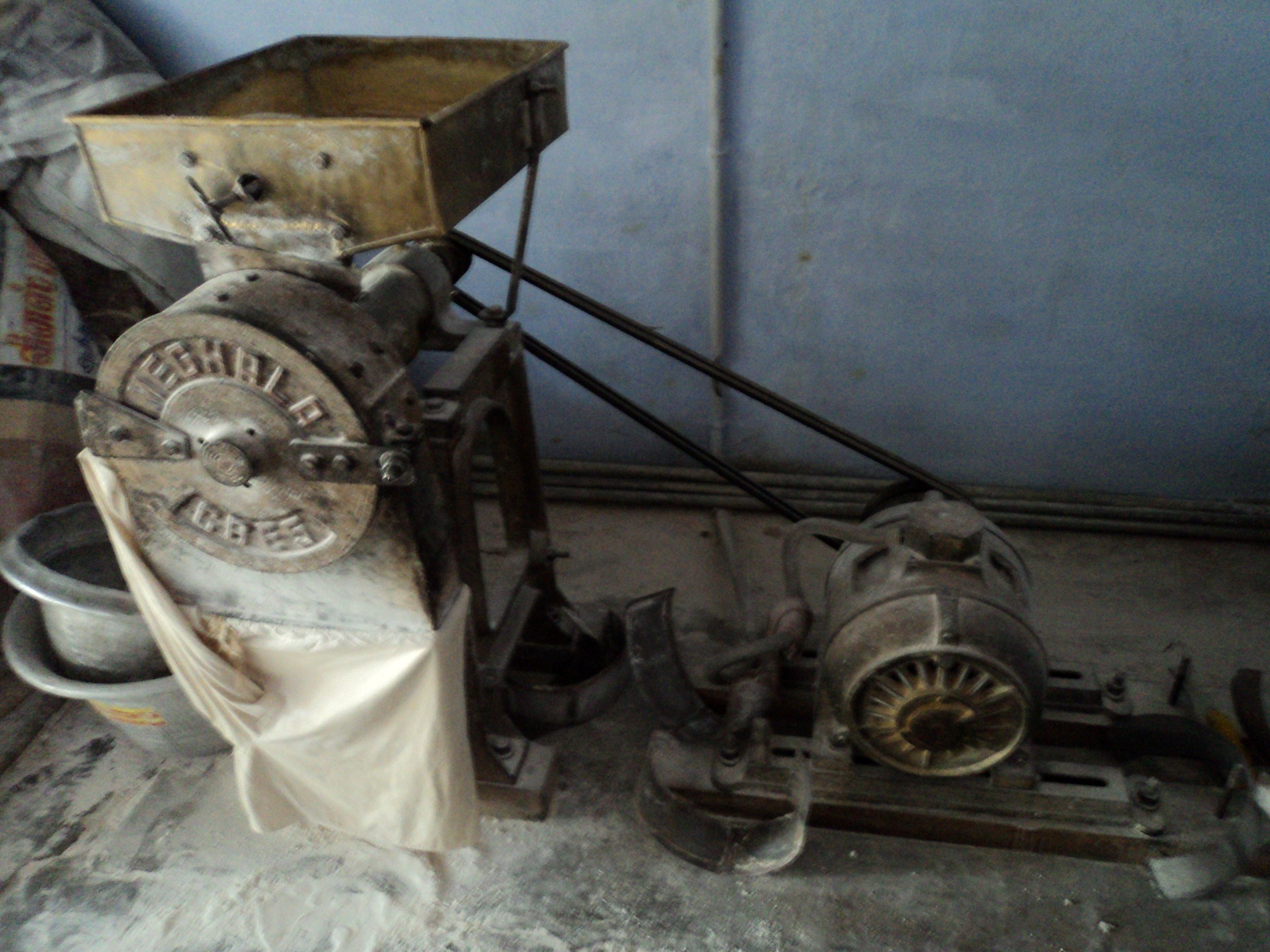 a tapioca mill